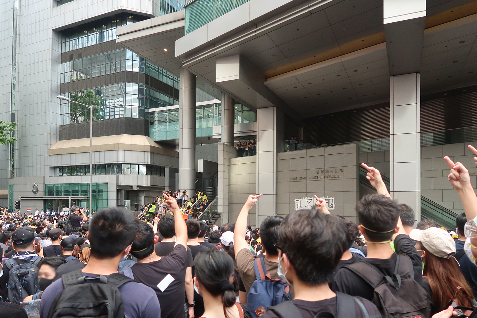 Protesters give Middle finger to the police force in Police Headquarter